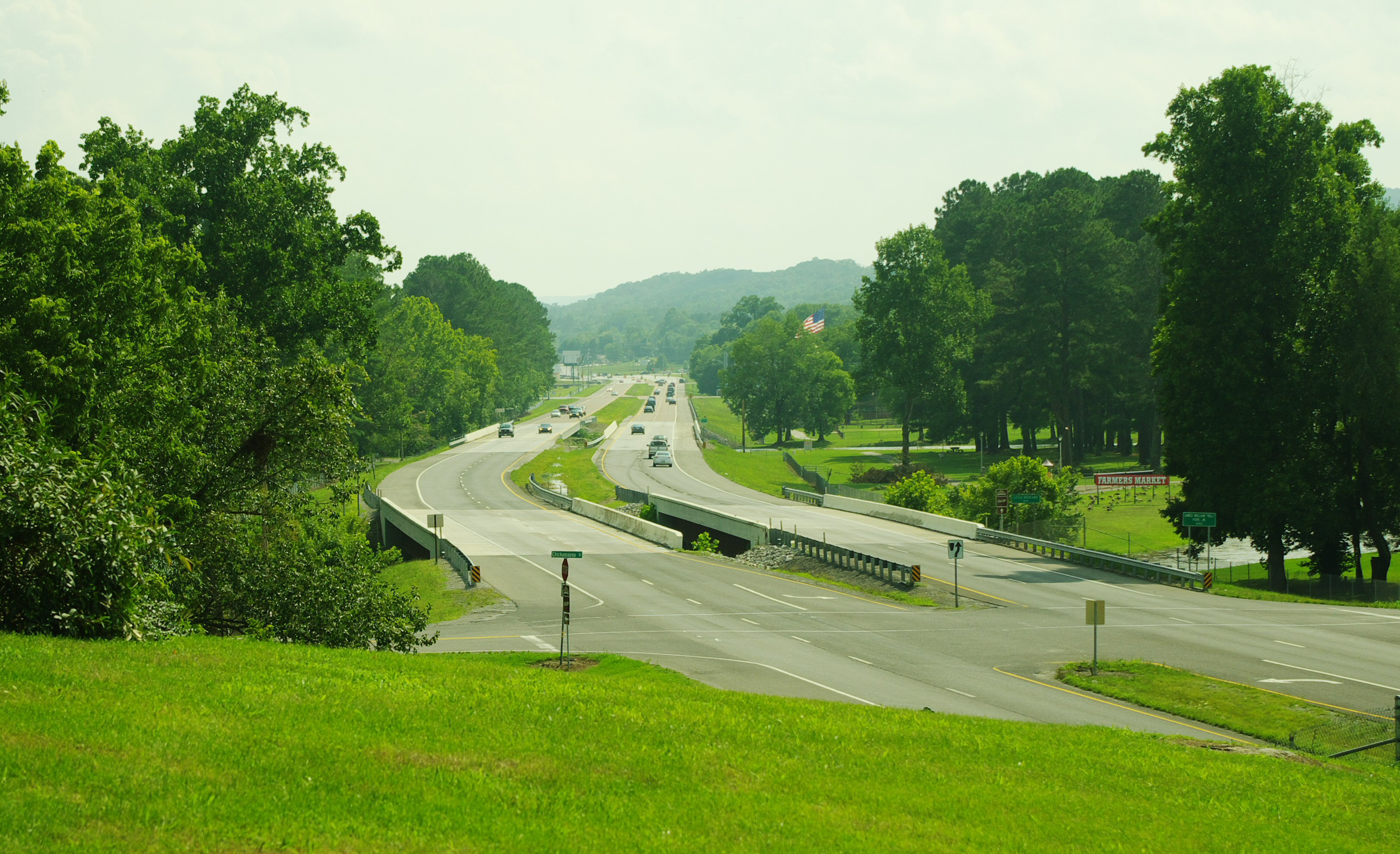 U.S. Route 27 at its Richland Creek crossings in Dayton, Tennessee, United States.